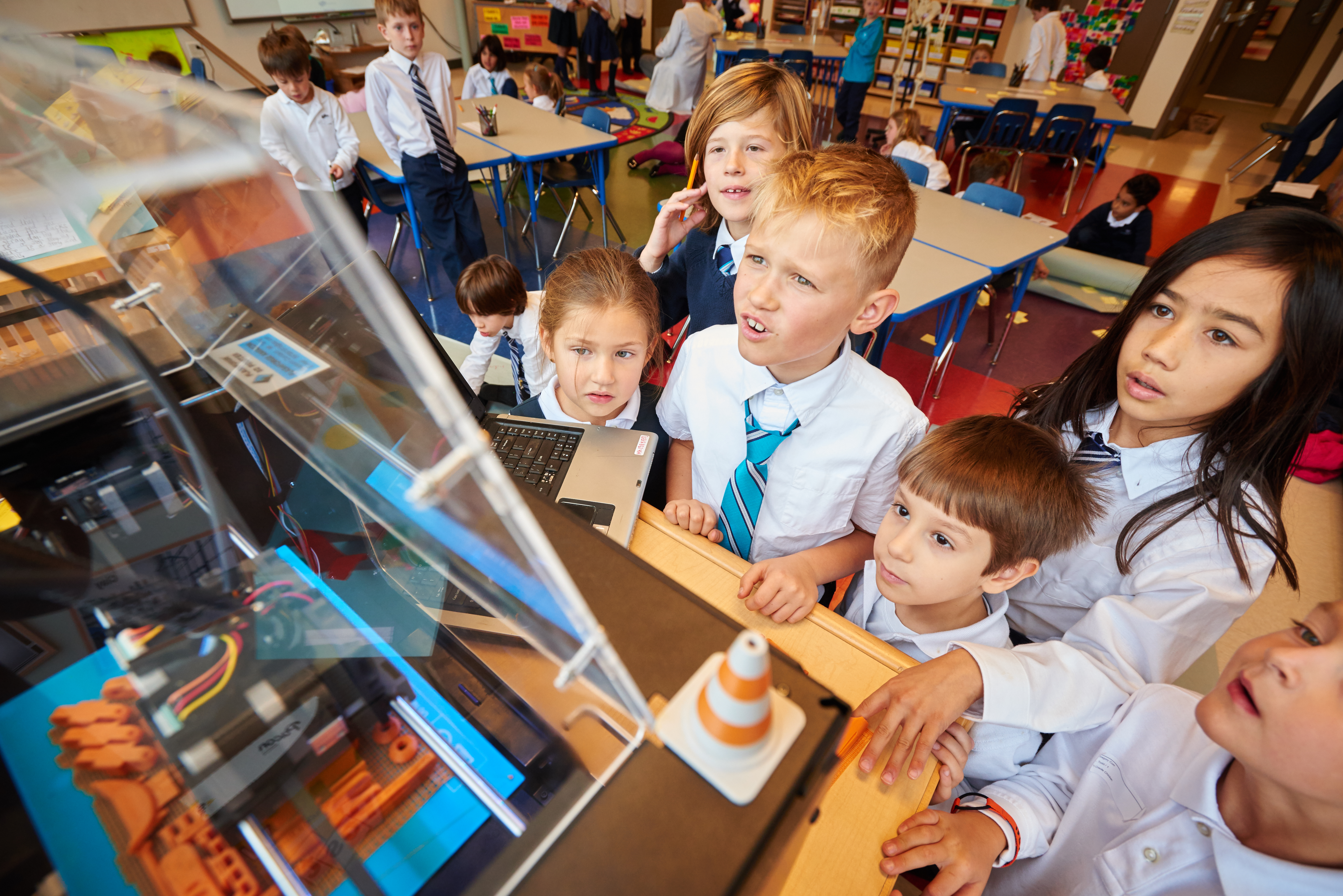 STEAM program